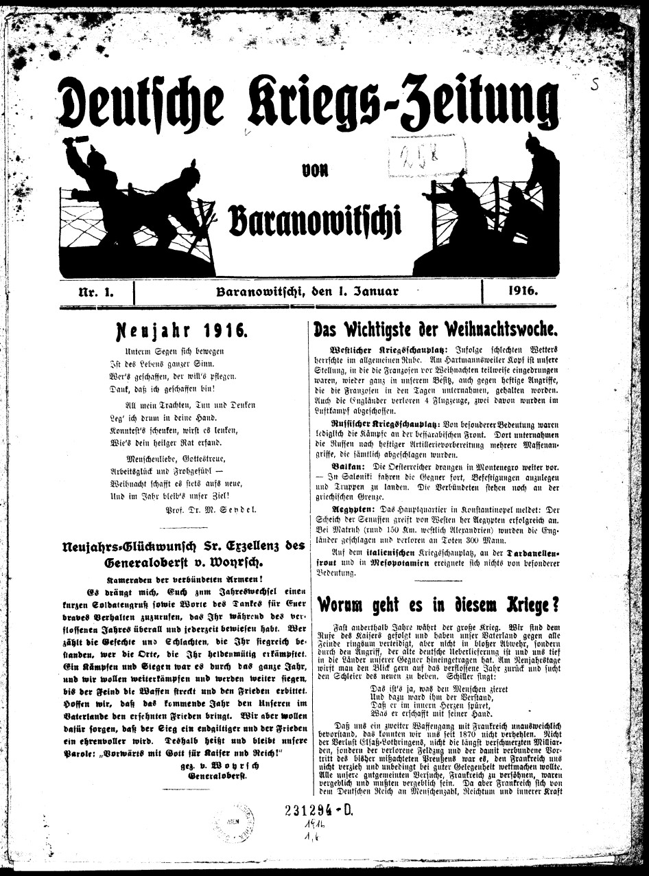 old austrian newspaper